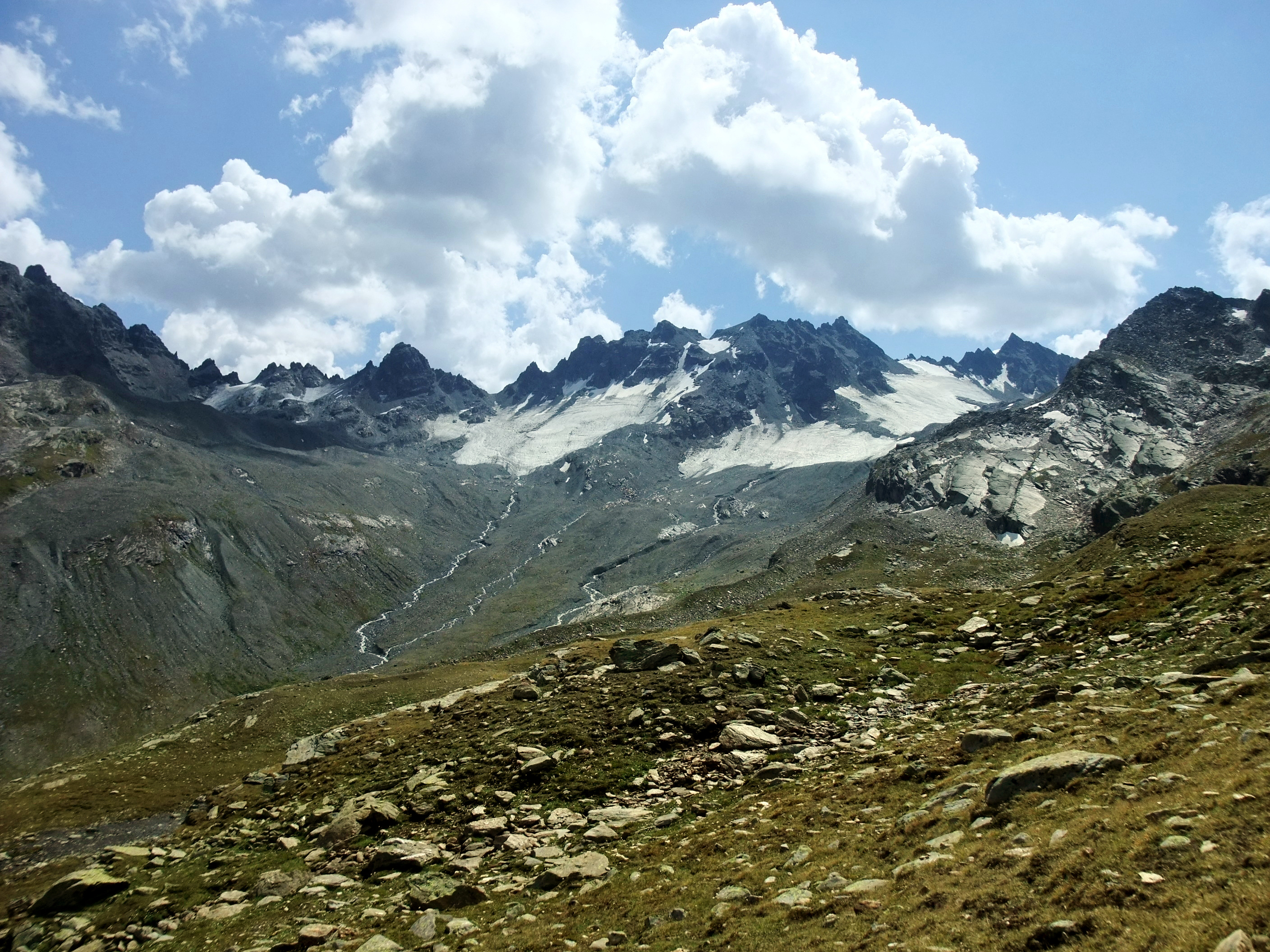 The Bieltal is situated in the federal state of Tyrol of Austria. View from Radsattel to the Silvretta Alps in the south.